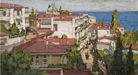 View of Alupka